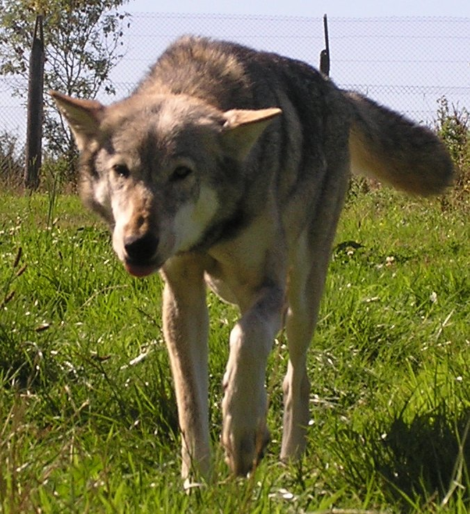 Dakota, a hand-reared wolf, shows textbook submissive behaviour as she greets a handler. Image taken at the UK Wolf Conservation Trust by myself on the 17th September 2006.